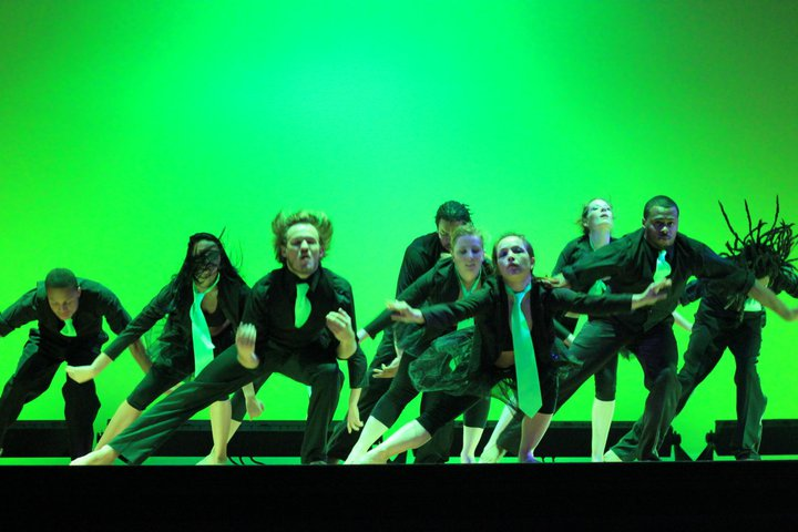 PRJ dancers